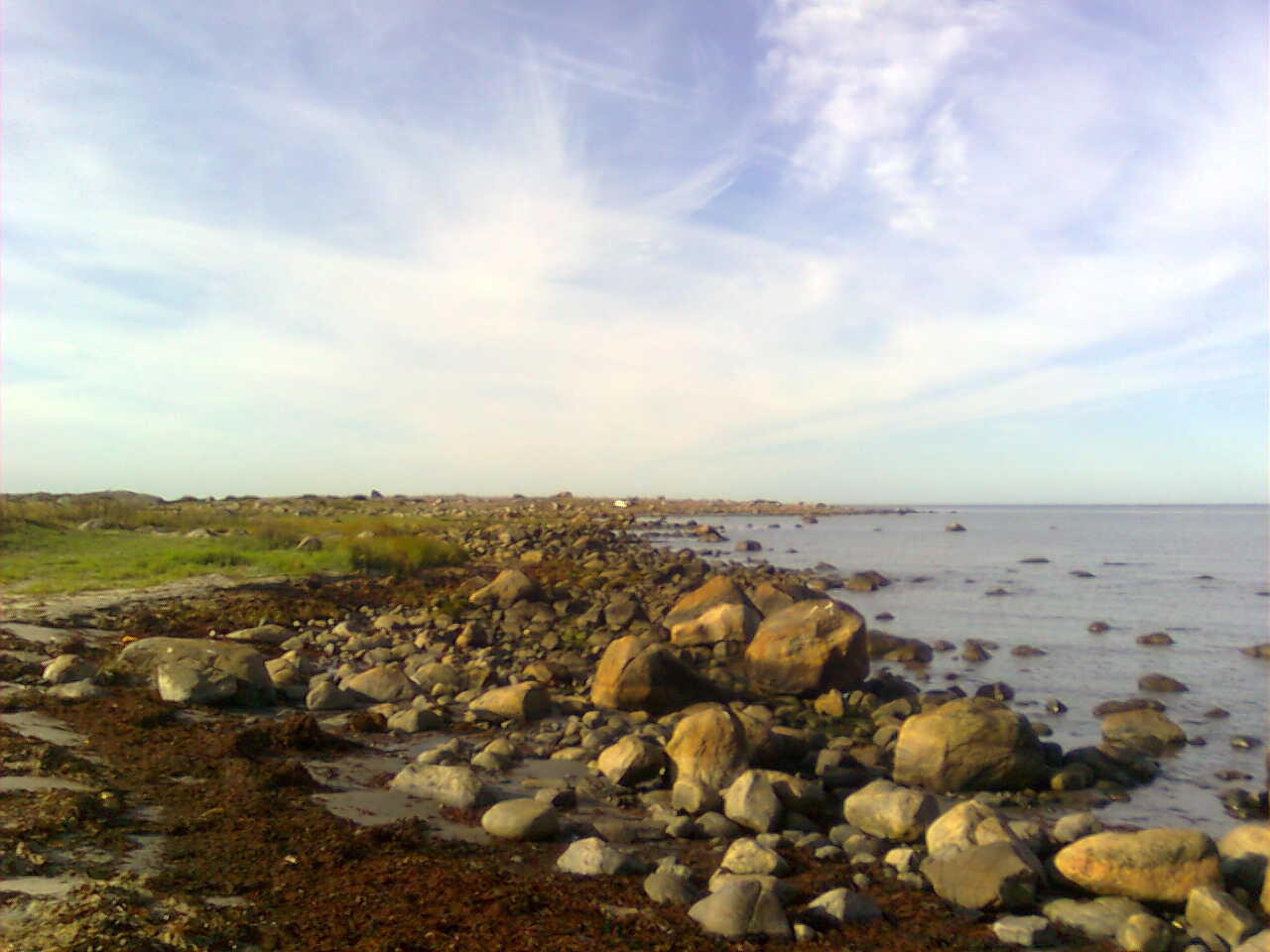 Gamla Köpstad Södra nature reserve, Varberg Municipality, Sweden.